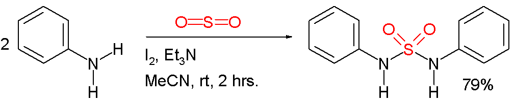 Sulfonamide Synthesis from SO2